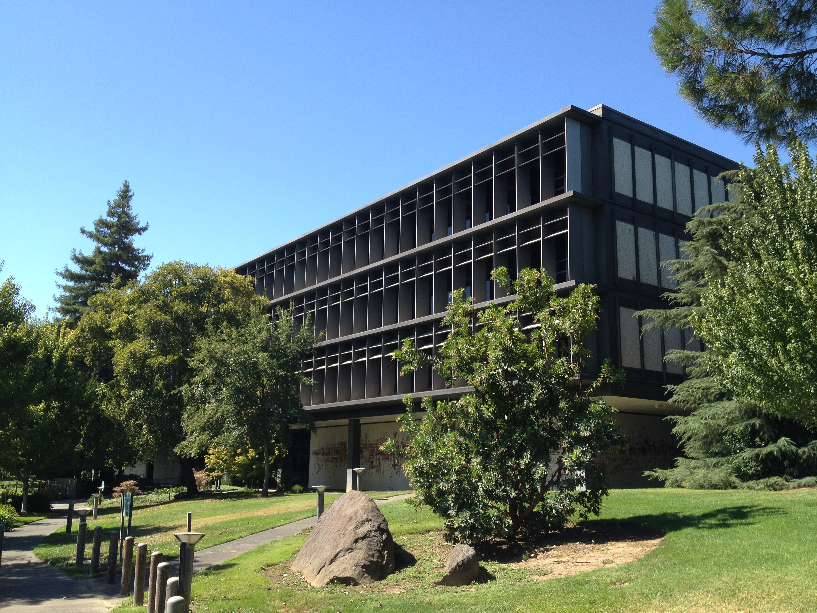 SMUD Headquarters Building